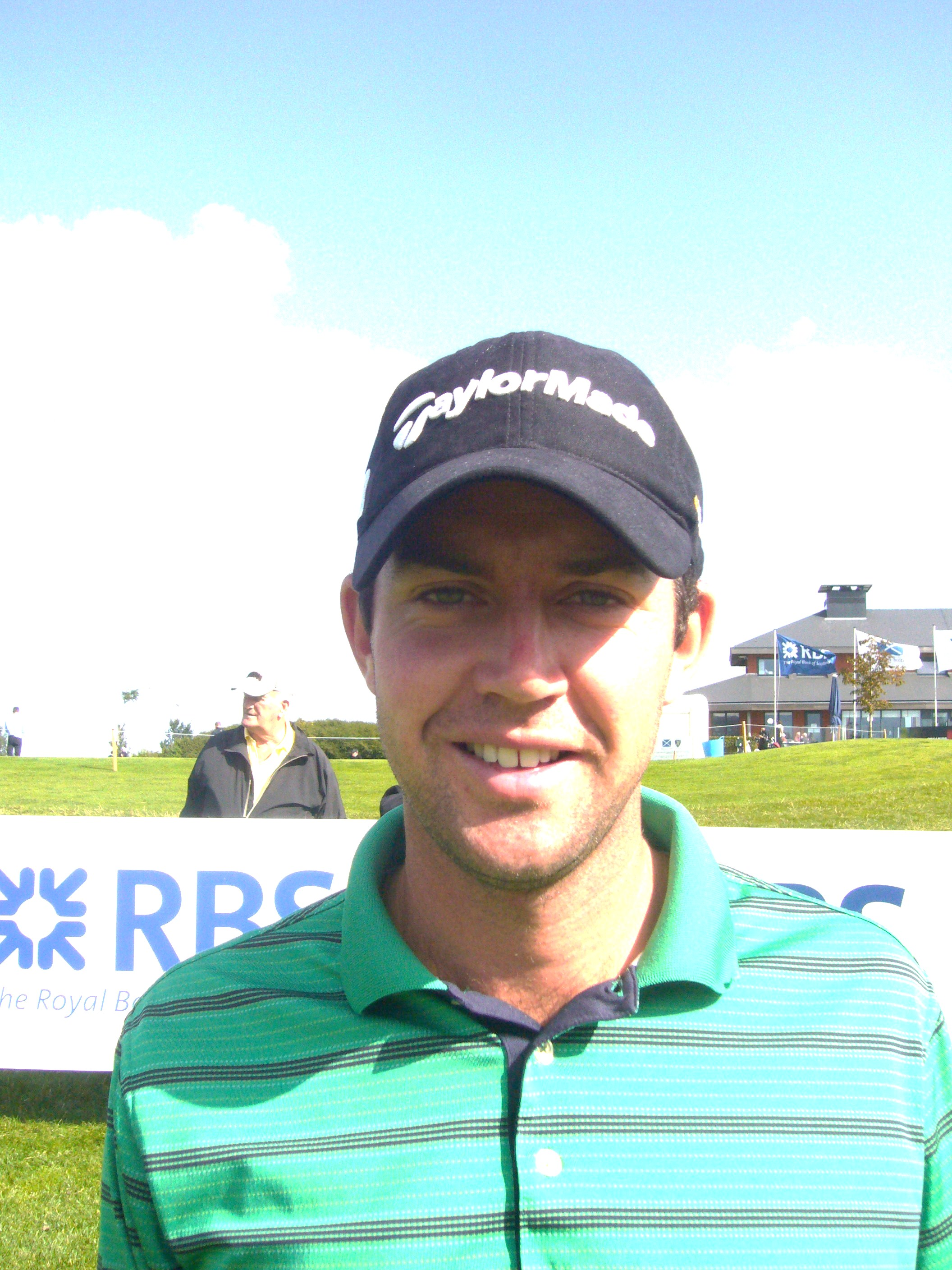 Scot Jameson at Dutch Challenge Open in Holland